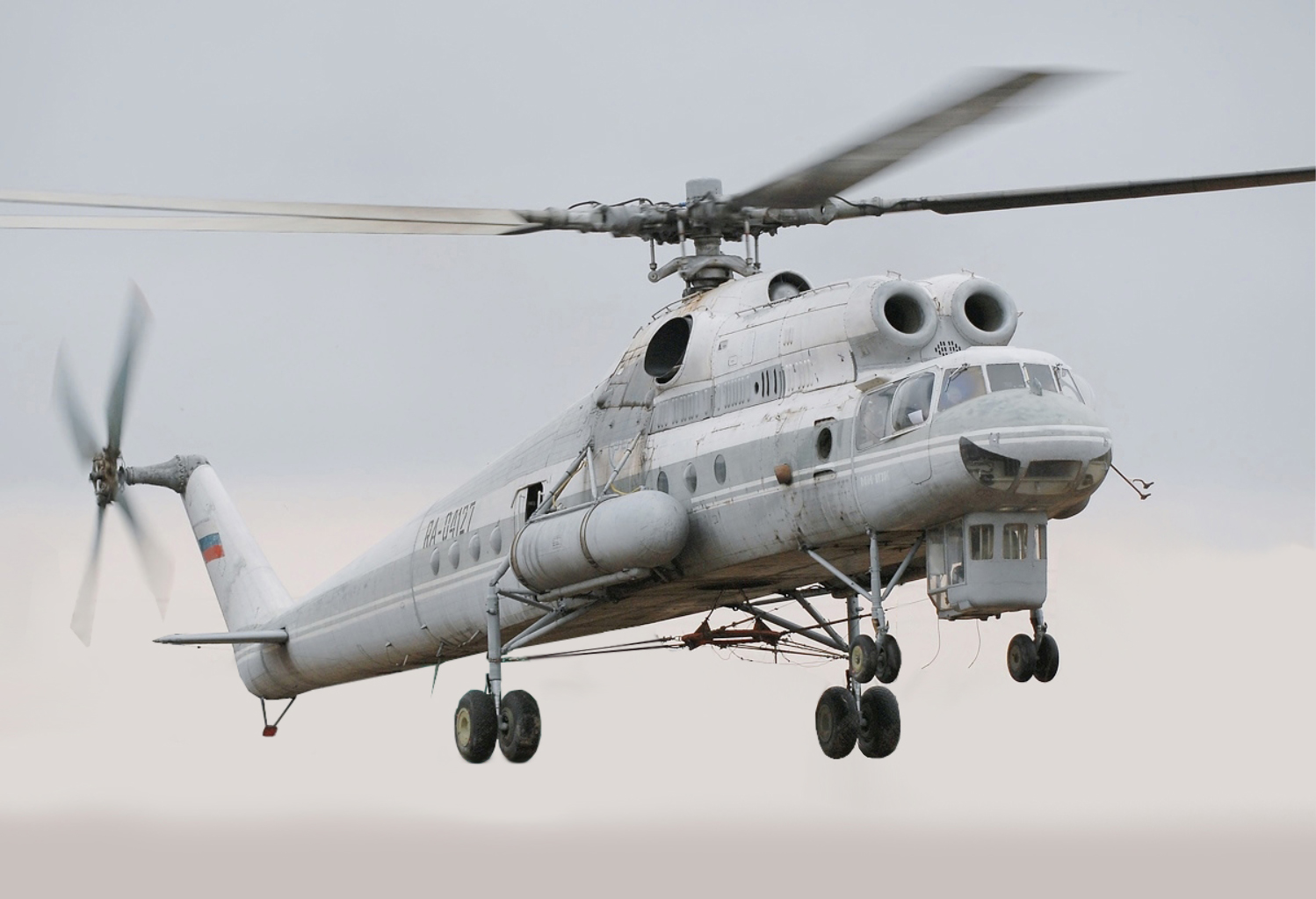 Vzlet Mil Mi-10K